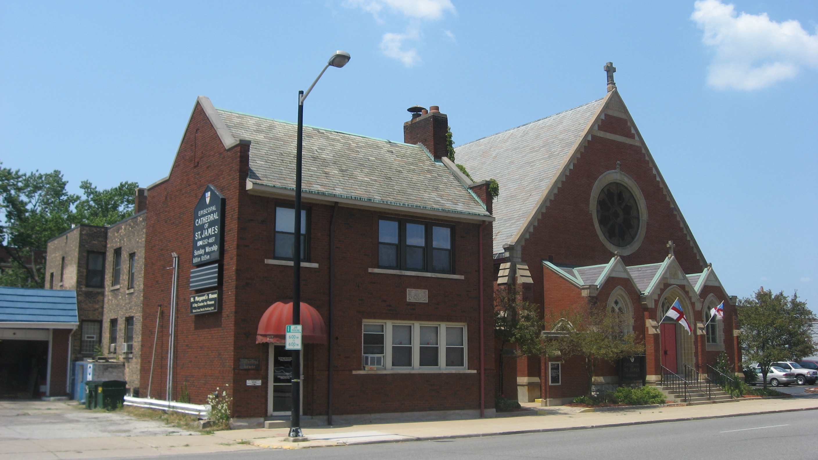 Front of St. James Cathedral and its parish hall, located at 115 and 117 S. Lafayette Street in South Bend, Indiana, United States. Built in 1894, the complex is listed on the National Register of Historic Places.